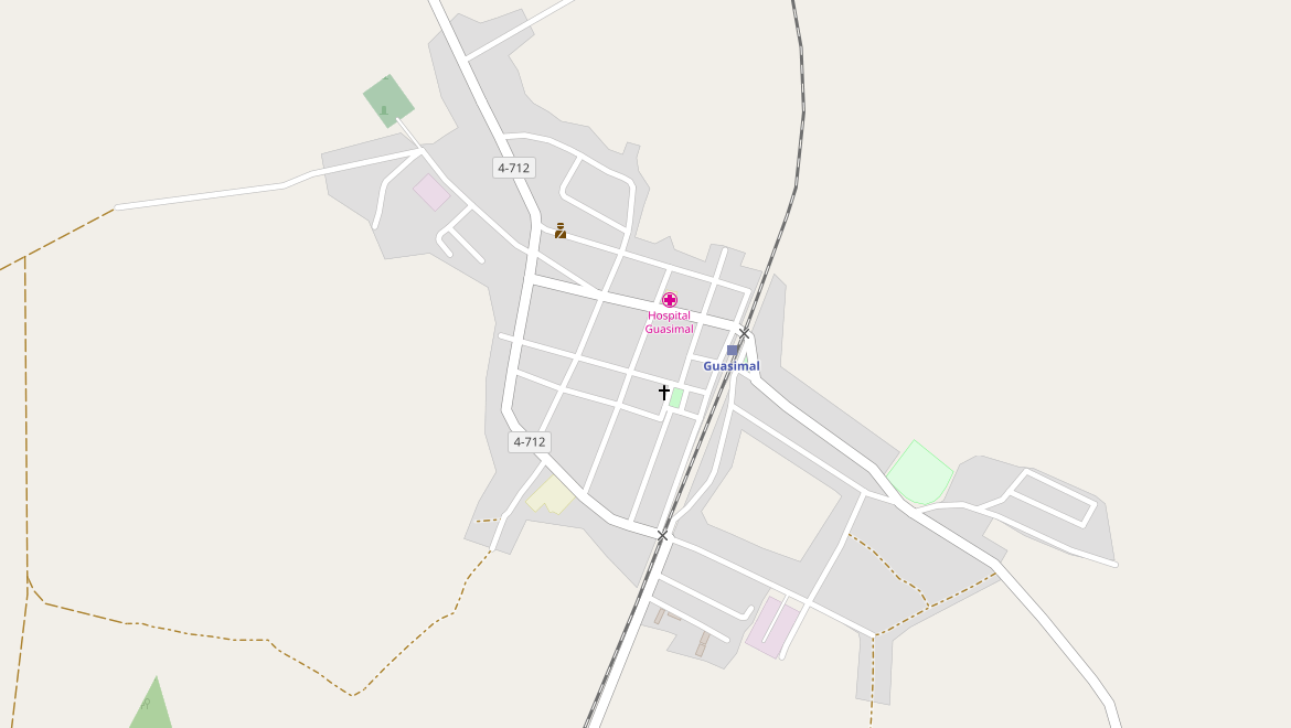 This map may be incomplete, and may contain errors. Don't rely solely on it for navigation.